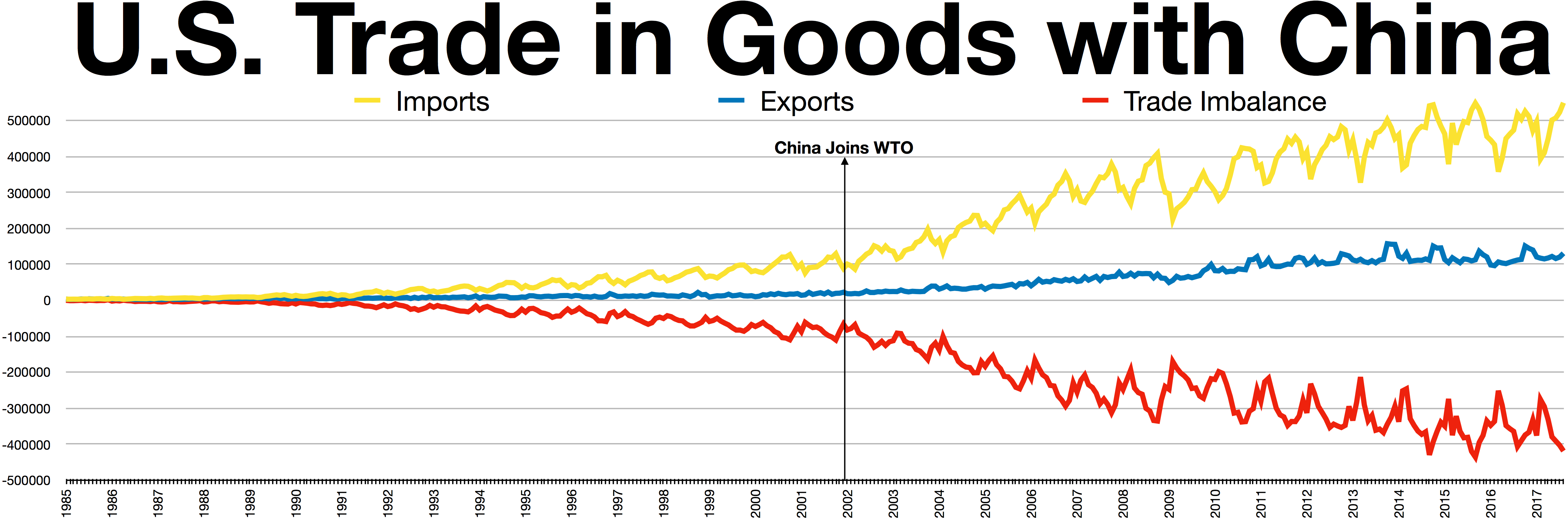 United States and China trade imbalance